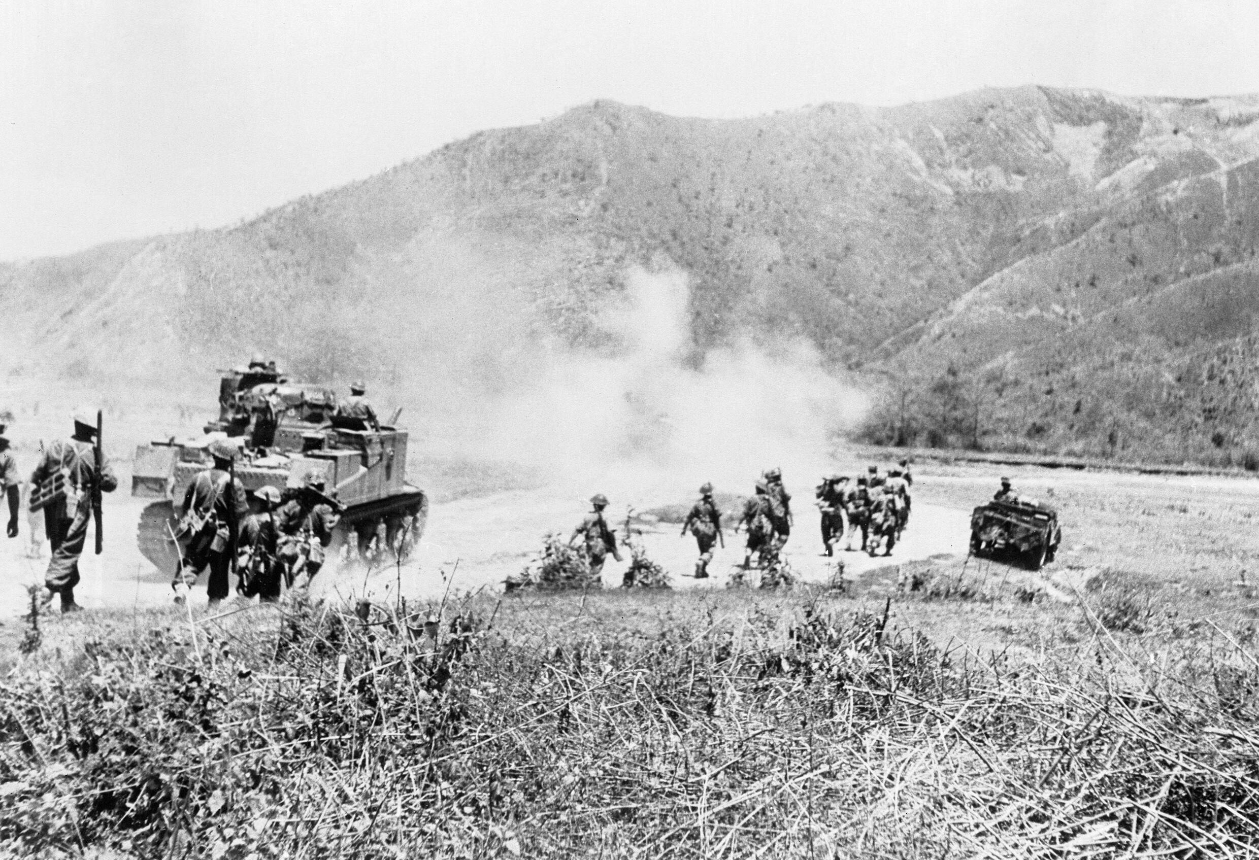 The War in the Far East- the Burma Campaign 1941-1945 The Battle of Imphal-Kohima March - July 1944: Men of the West Yorkshire Regiment and 10th Gurkha Rifles advance along the Imphal-Kohima road behind Lee-Grant tanks.